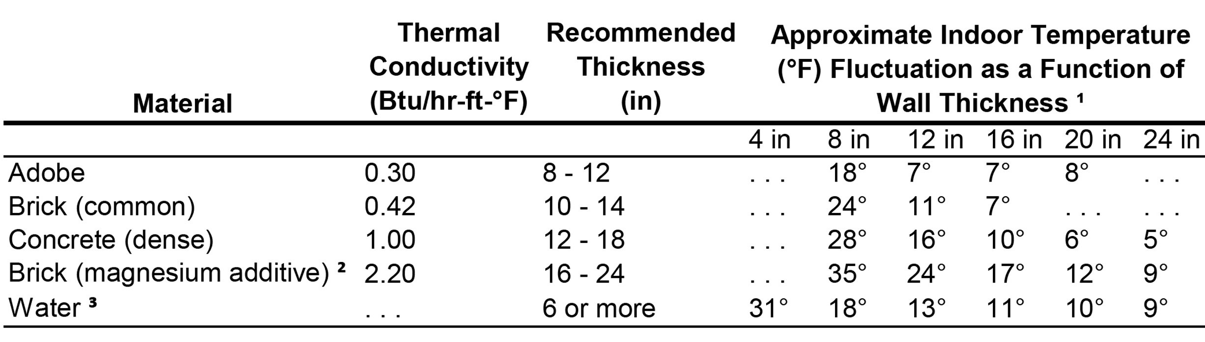 Effect of Wall Thickness to Fluctuation